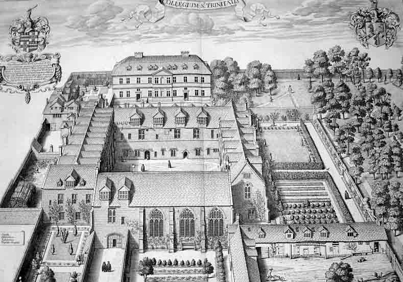 A view of Trinity College, Oxford, from David Loggan's Oxonia Illustrata, originally an engraving on copper.